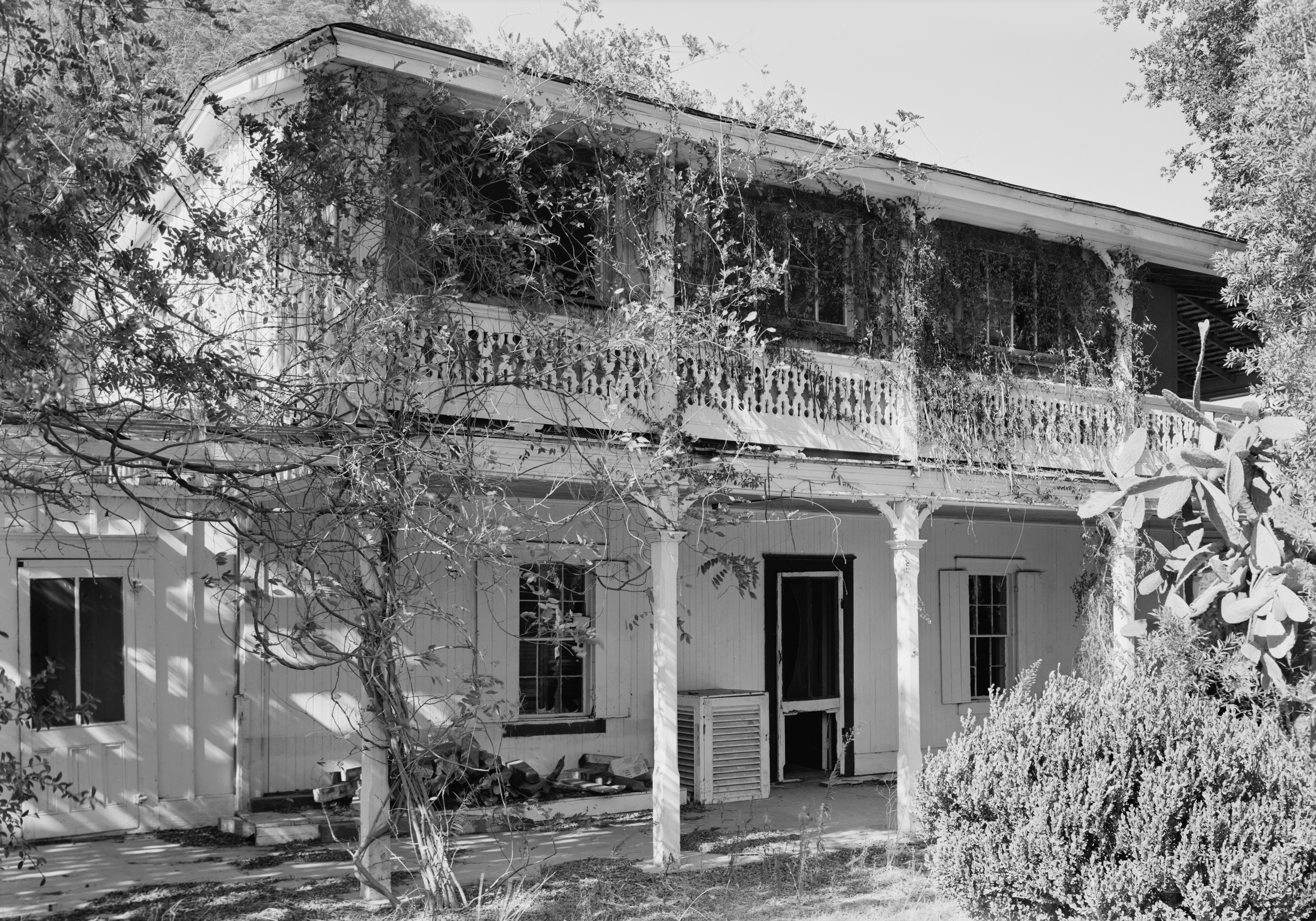 Miguel and Espíritu Leonis Adobe, in the far western San Fernando Valley.. A Los Angeles Historic-Cultural Monument (the first) and National Register of Historic Places site located at 23537 Calabasas Road, Calabasas, Los Angeles County.